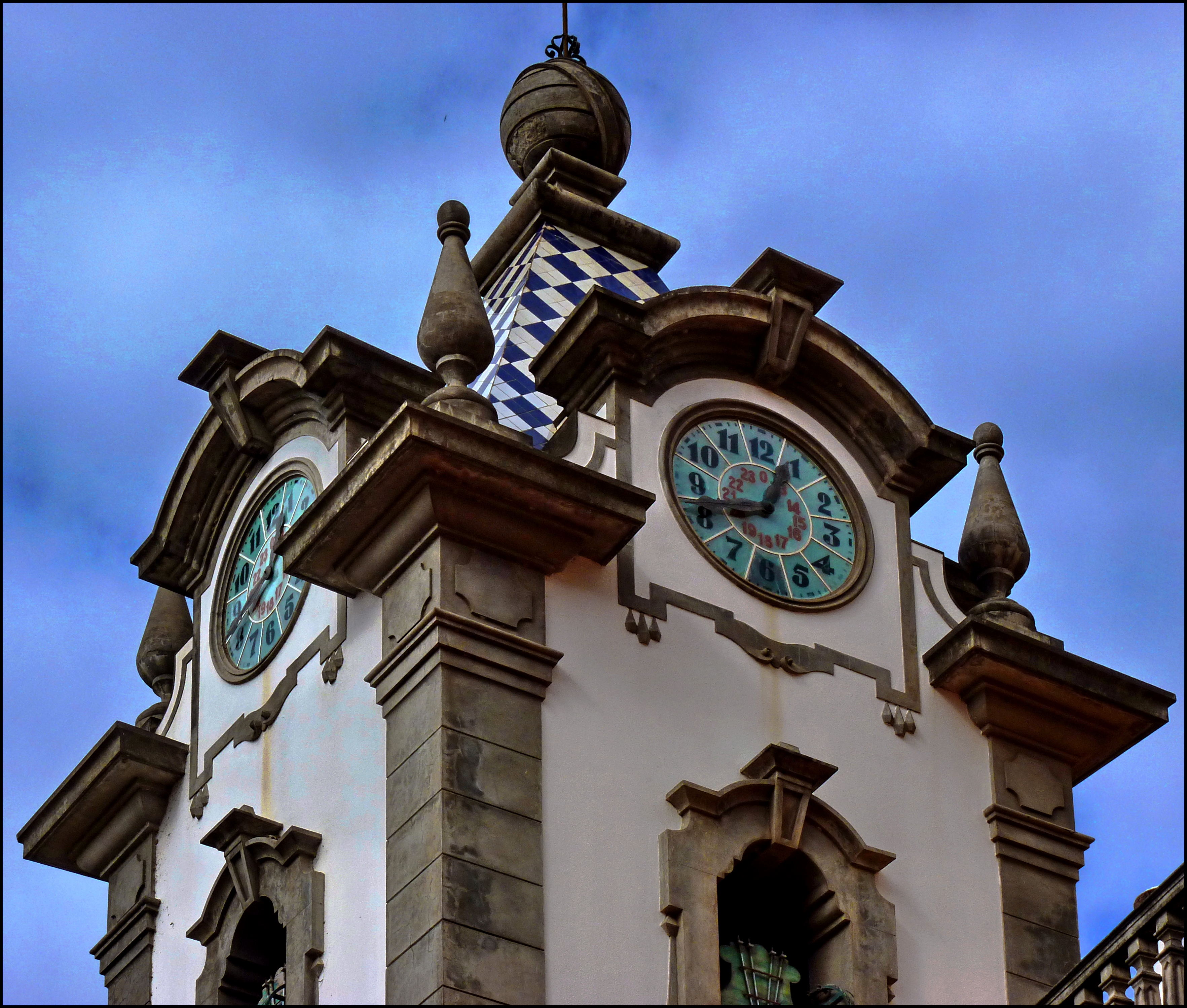 Ribeira Brava - Church of St. Benedict